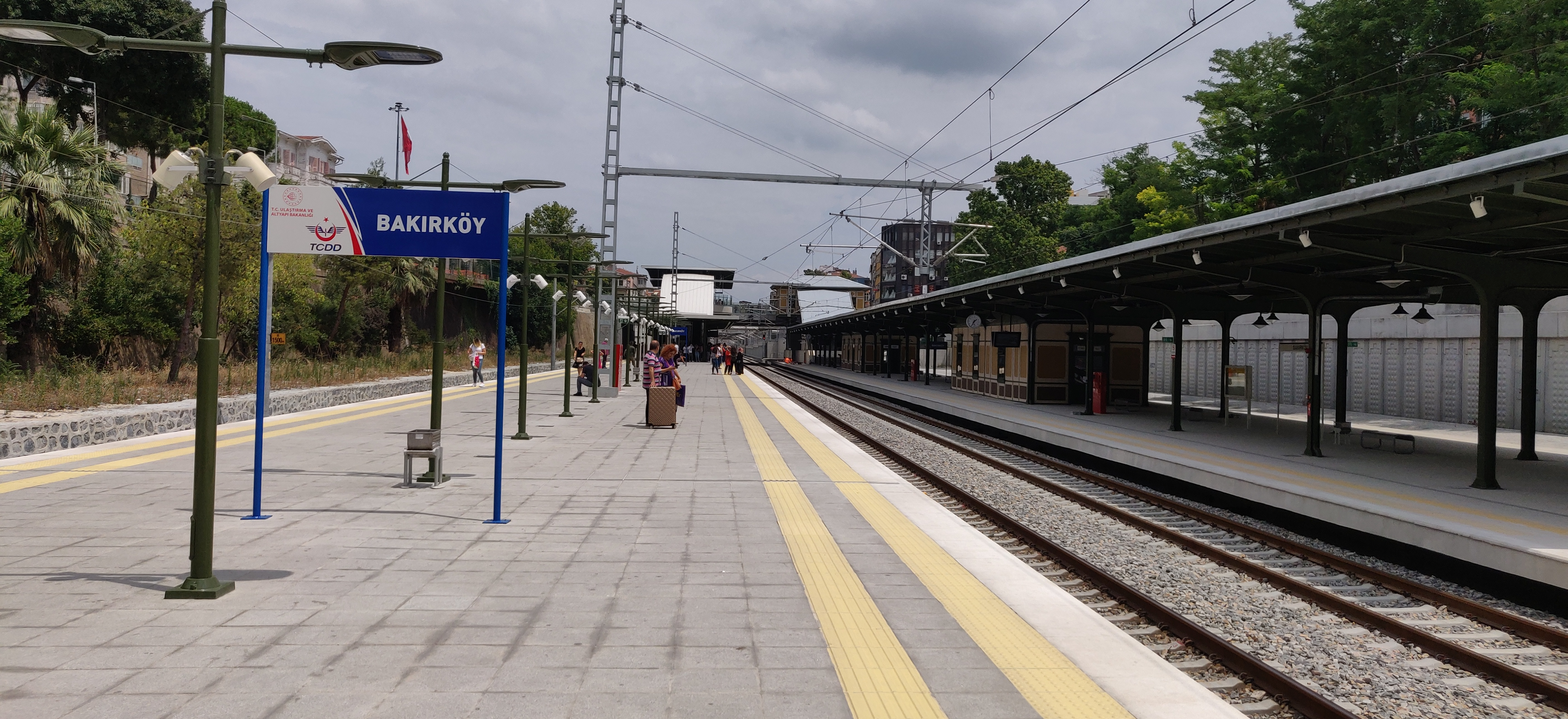 Looking east from the Marmaray platform at Bakirköy railway station.